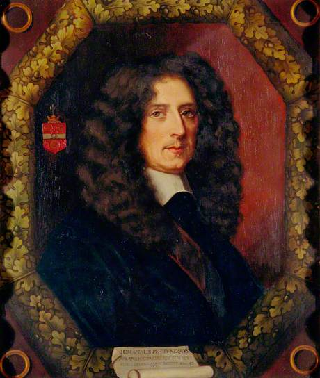 Portrait (copy) of Sir John Pettus (1613–1685), English royalist, politician and natural philosopher.